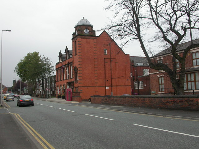 Atherton Town Hall On Bolton Road; seat of Atherton Urban District Council until 1974; now municipal buildings for Wigan MBC.